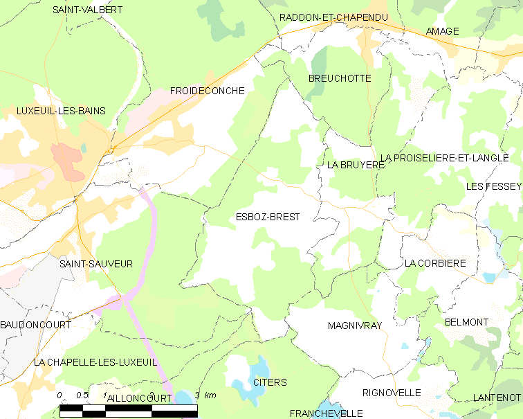 Map of French municipality